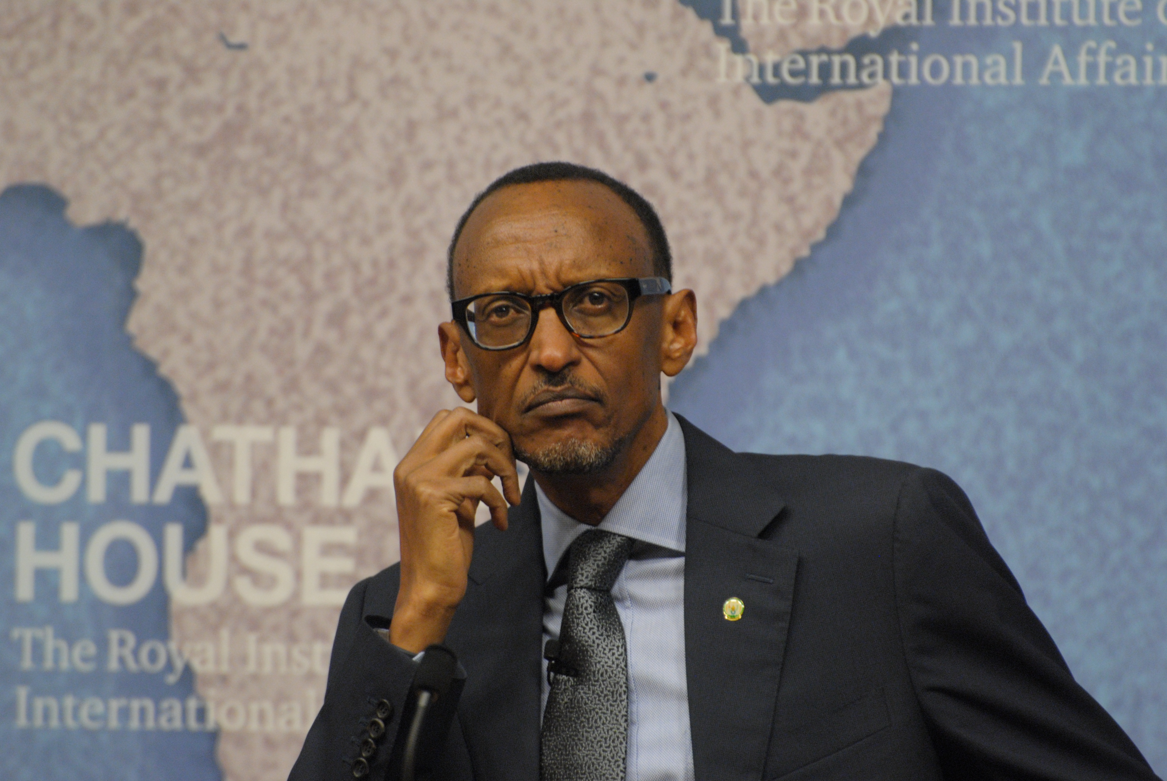 Rwanda's Role in an Emerging Africa and Uncertain World, 21 October 2014, cht.hm/1tI6KUV